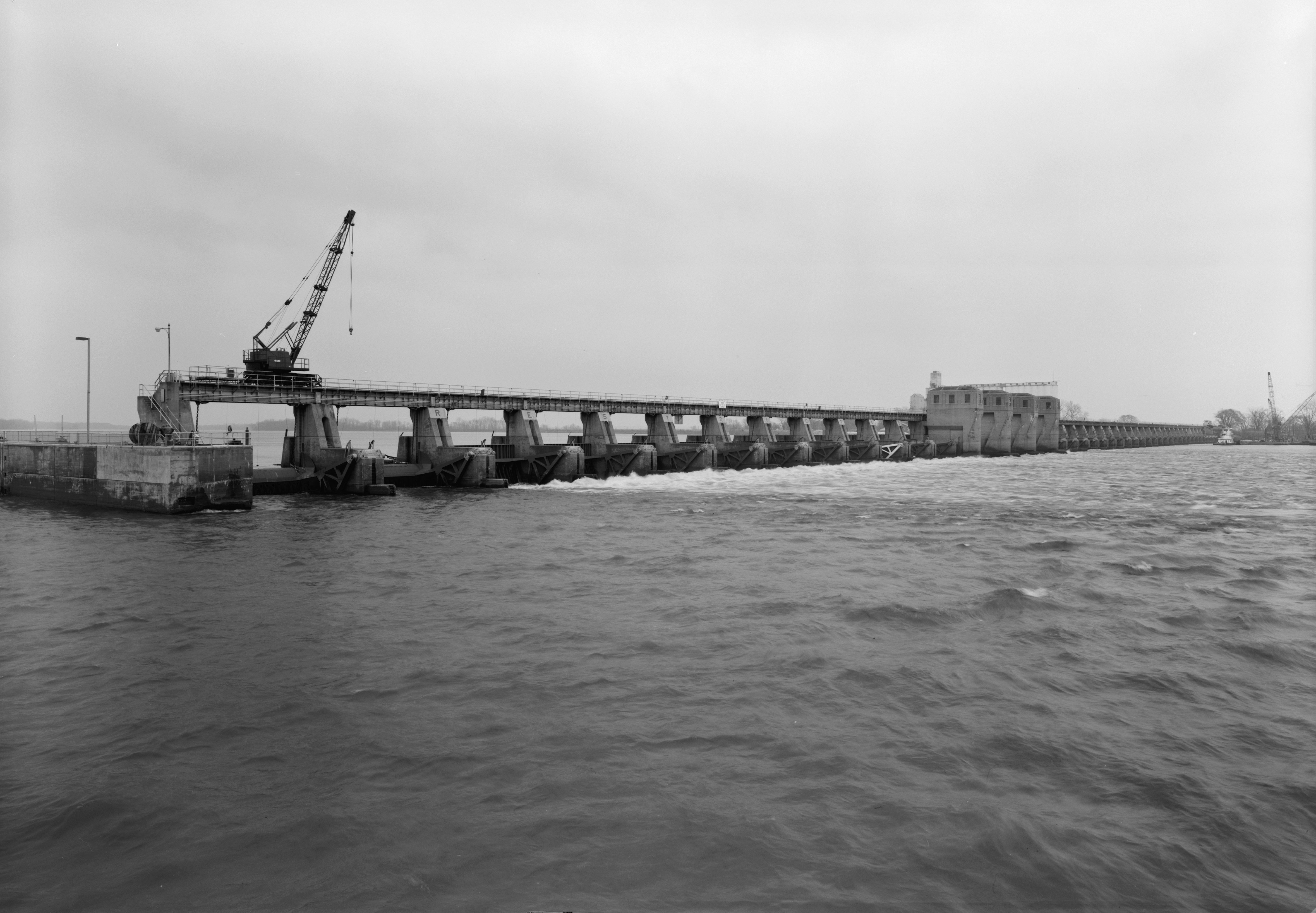 Mississippi River Lock and Dam number 20, near Canton, Missouri - general view of dam, downstream side, looking from guidewall.